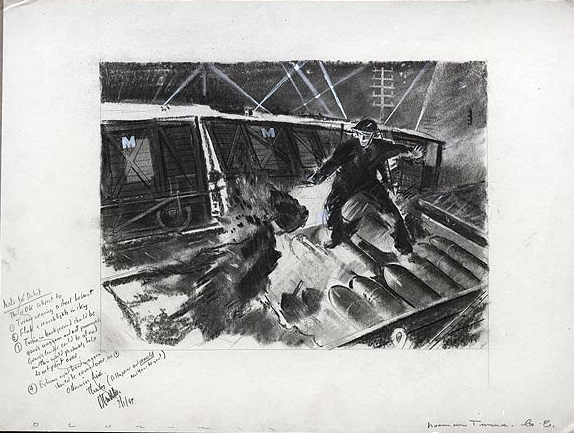 Illustration of Norman Tunna extinguishing a fire on a munitions train during an air raid on Liverpool in September 1940. The drawing was commissioned by the UK Ministry of Information for a book on winners of the George Cross